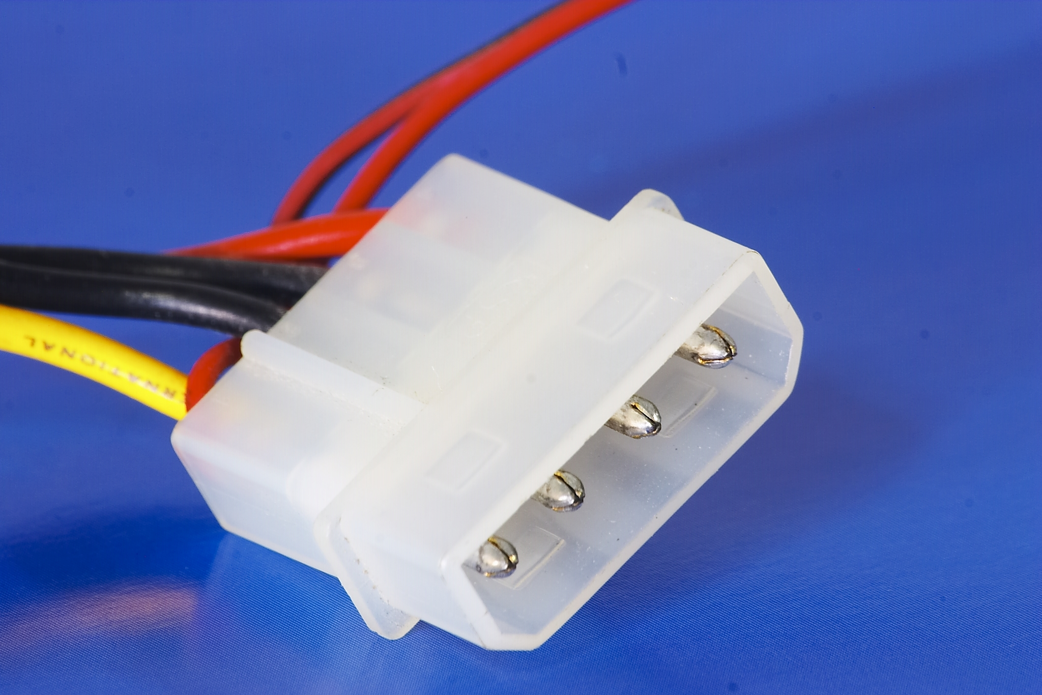 Molex male connector.